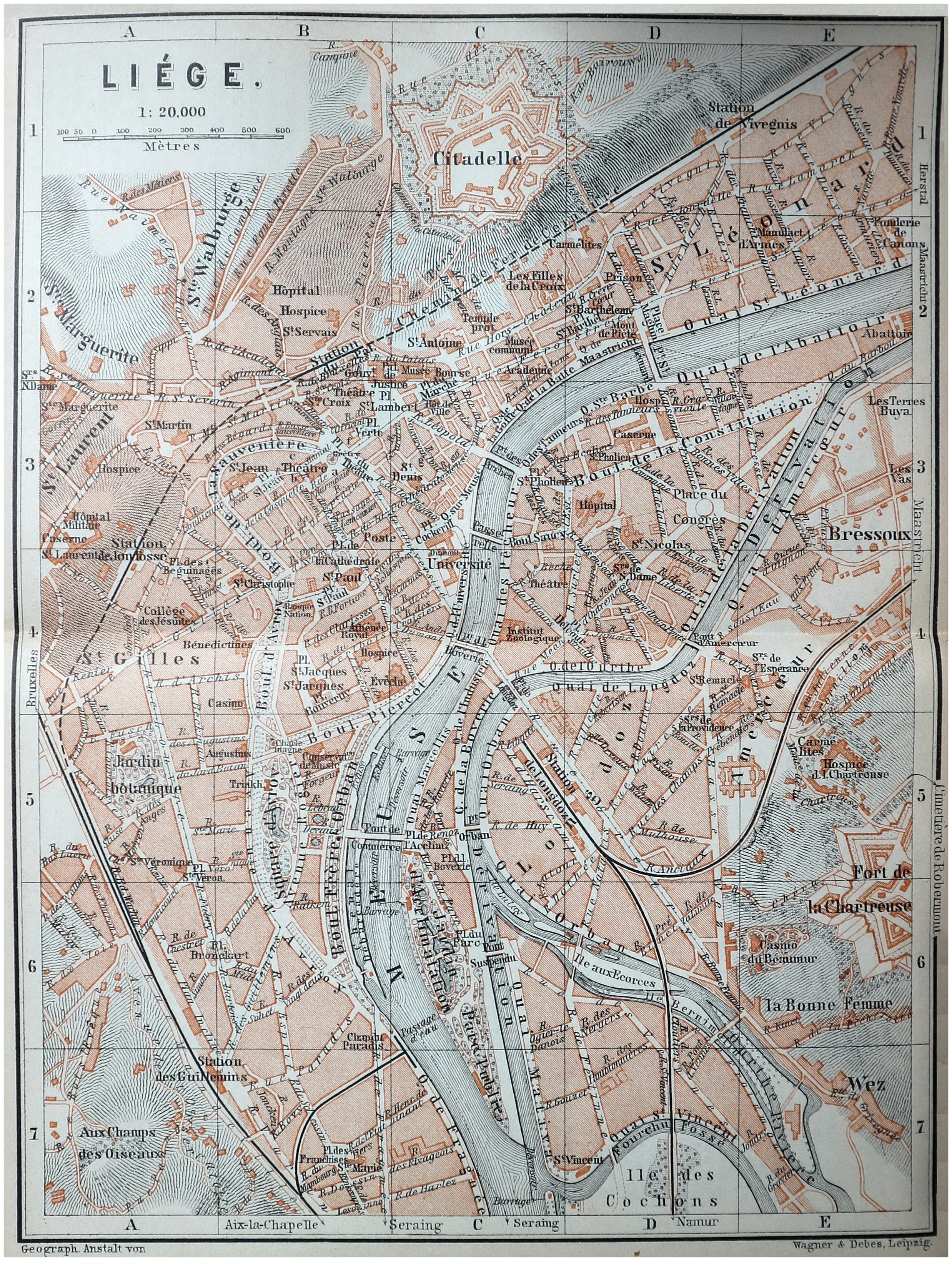 Liège (Belgium - province of Liège) - Map from the guide "Baedeker Belgium and Holland", French edition of 1897